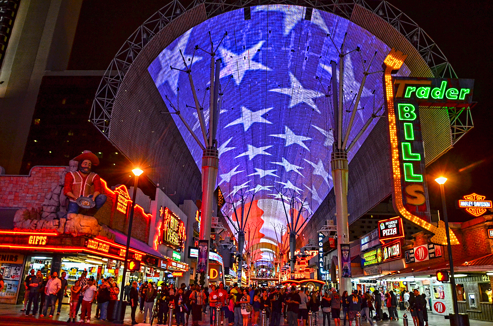 Photo : TDelCoro March 11, 2016